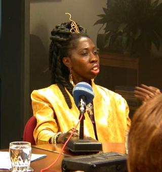 Marquetta L. Goodwine, AKA Queen Quet, a leader of the Gullah/Geechee people of the SE United States, speaking at Washington Foreign Press Center Briefing on "The Gullah/Geechee Nationa: An Overview on the Preservation of the Culture and Identity." Cropped version of photo.